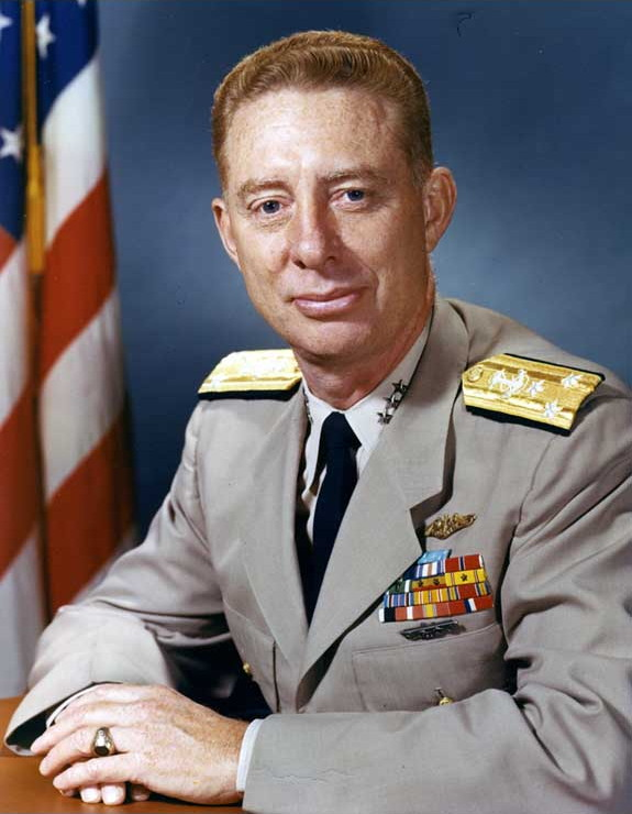 Vice Admiral Lawson P. "Red" Ramage, USN, Medal of Honor awardee with two Navy Crosses.